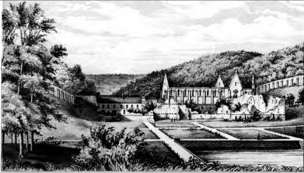 Val des Choues abbey, in ruins, taken from book History of the Religious House of Plucardyn by SR MacPhail published 1881, Edinburgh.)